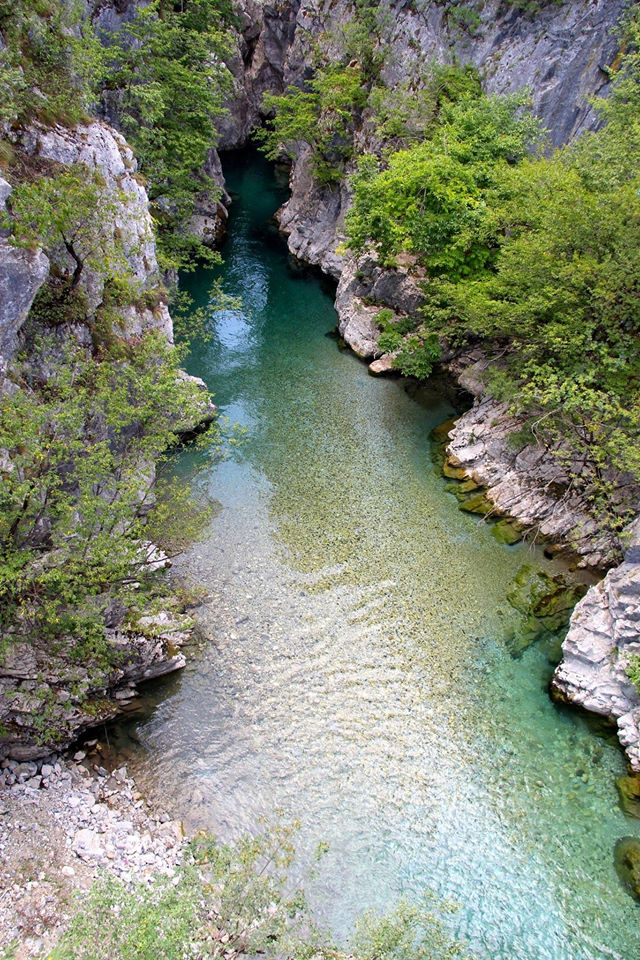 Landscape of North Albania.